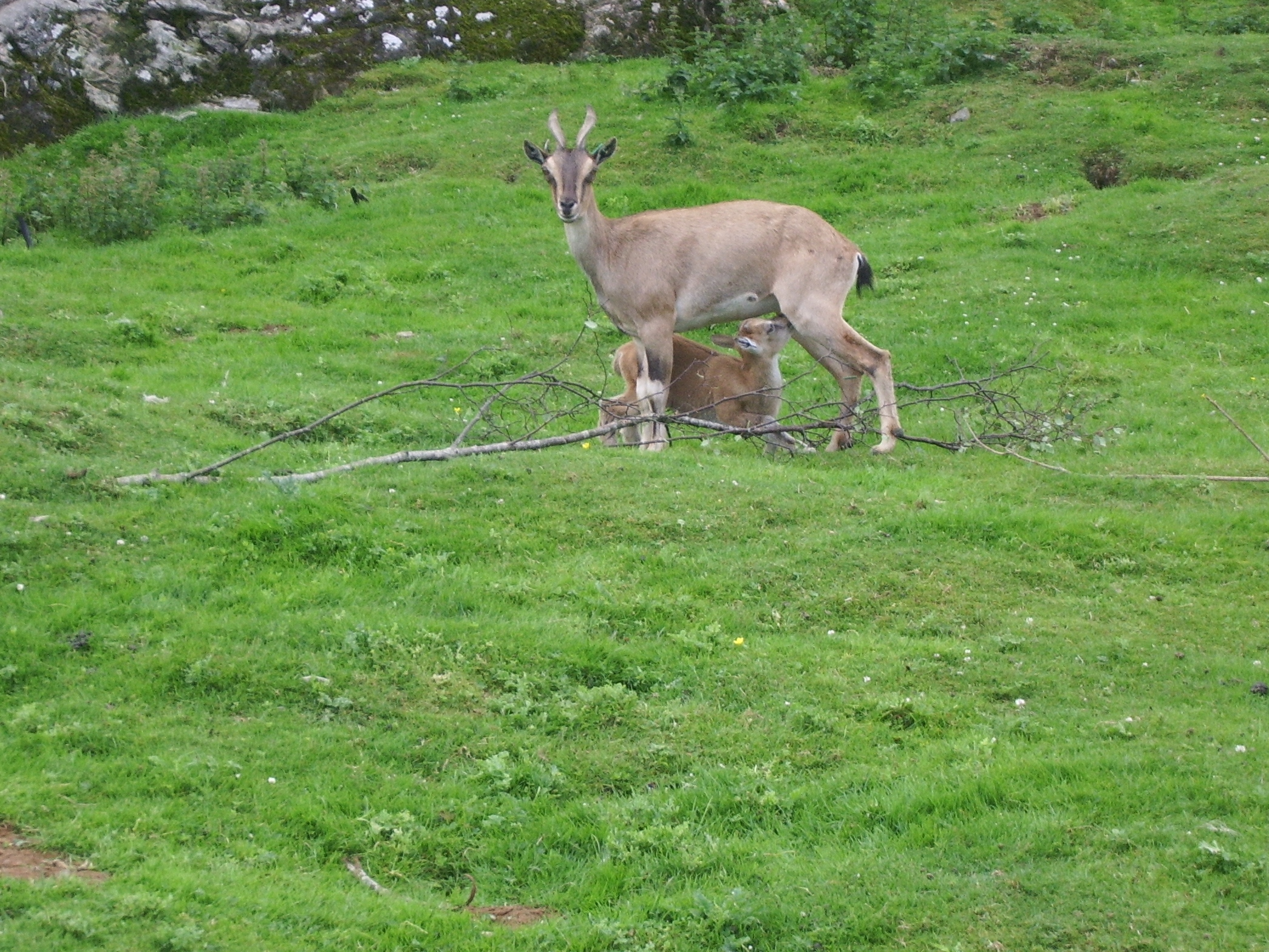 Female and kid, identified as Turkmenian Markhor, at the Highland Wildlife Park.